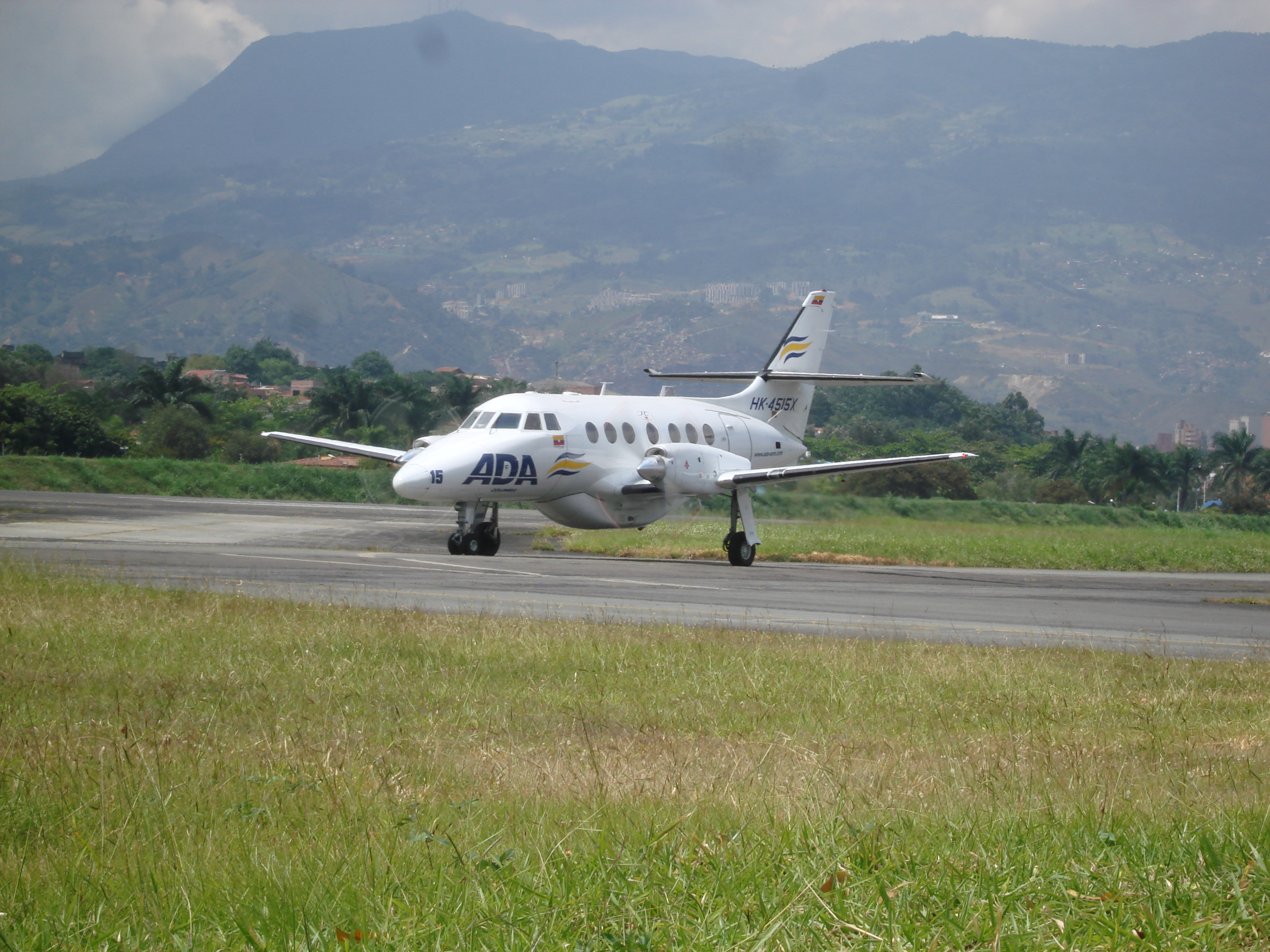 ADA Jetstream 32 HK-4515